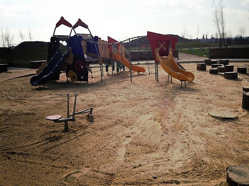 The play area at Milton Creek Country Park for younger children.